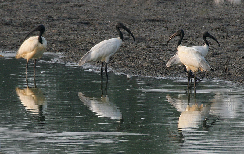 Black-headed Ibis Threskiornis melanocephalus in Kolleru, Andhra Pradesh, India.